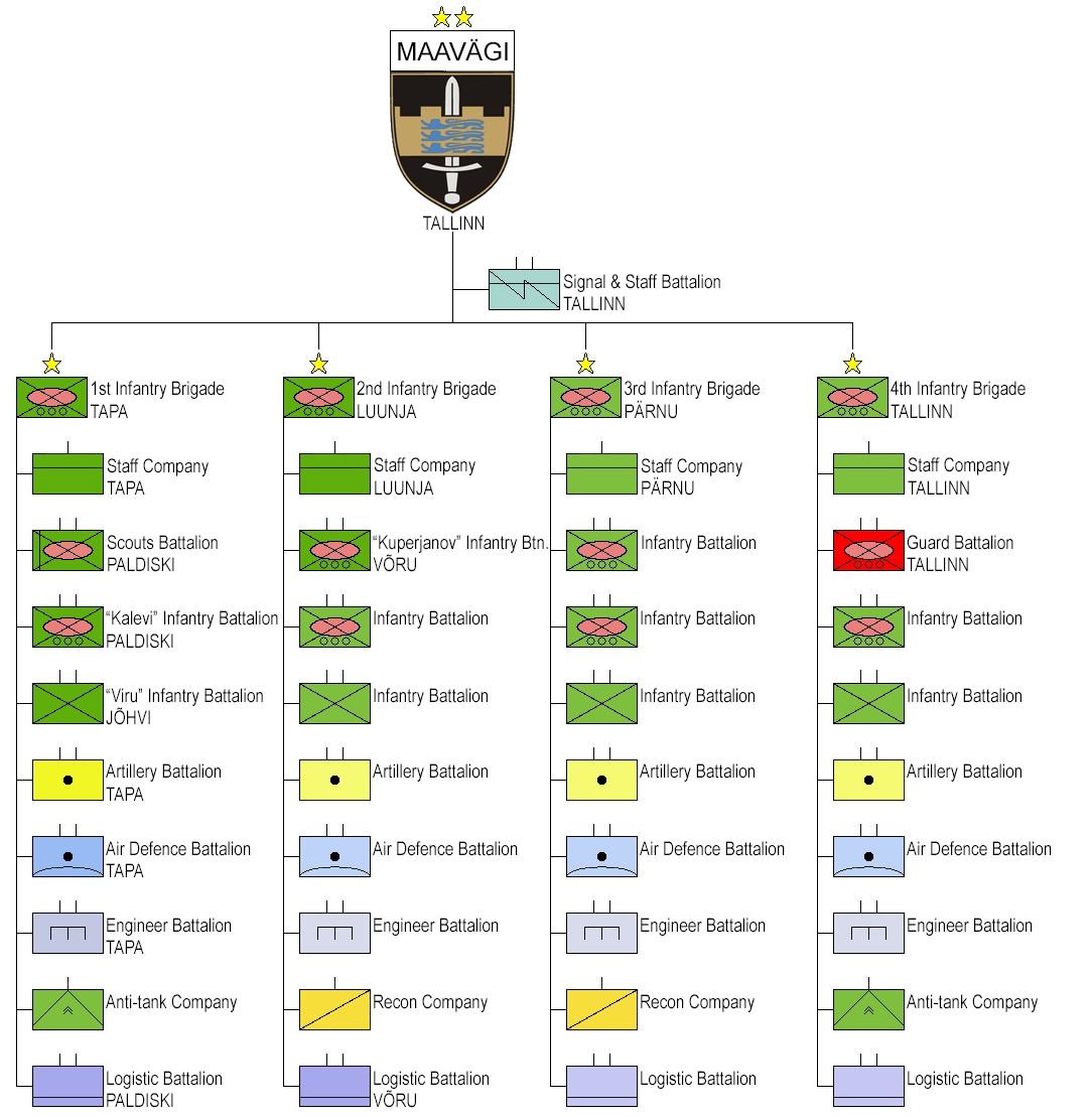 Estonian Land Forces structure during war time